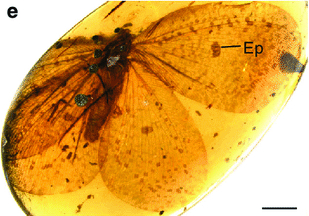 Cretanallachiinae from late Cretaceous Burmese amber. e Oligopsychopsis grandis, holotype, CAM BA0010, female. An antennae, Eye compound eye, Ep eyespot, Ga galea, Lbp labial palp, Lg ligula, Mxp maxillary palp. Scale bar 4 mm